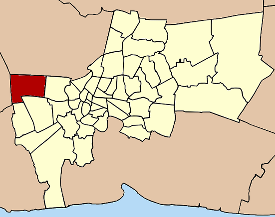 Map of Bangkok, Thailand, highlighting the district (khet) Thawi Watthana (ทวีวัฒนา)